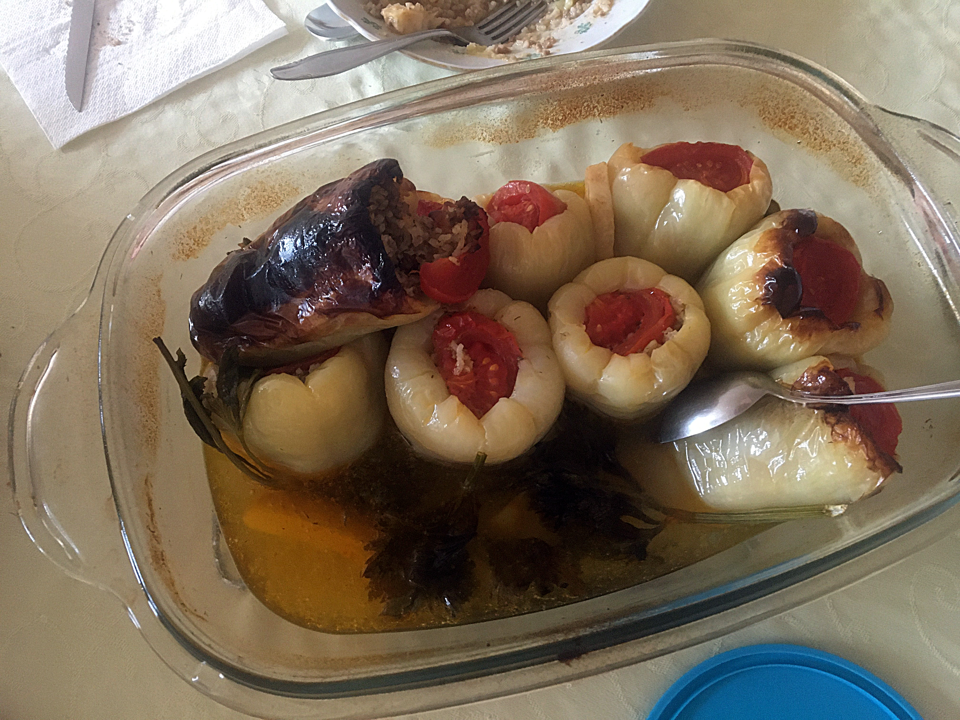 Serbian punjena paprika